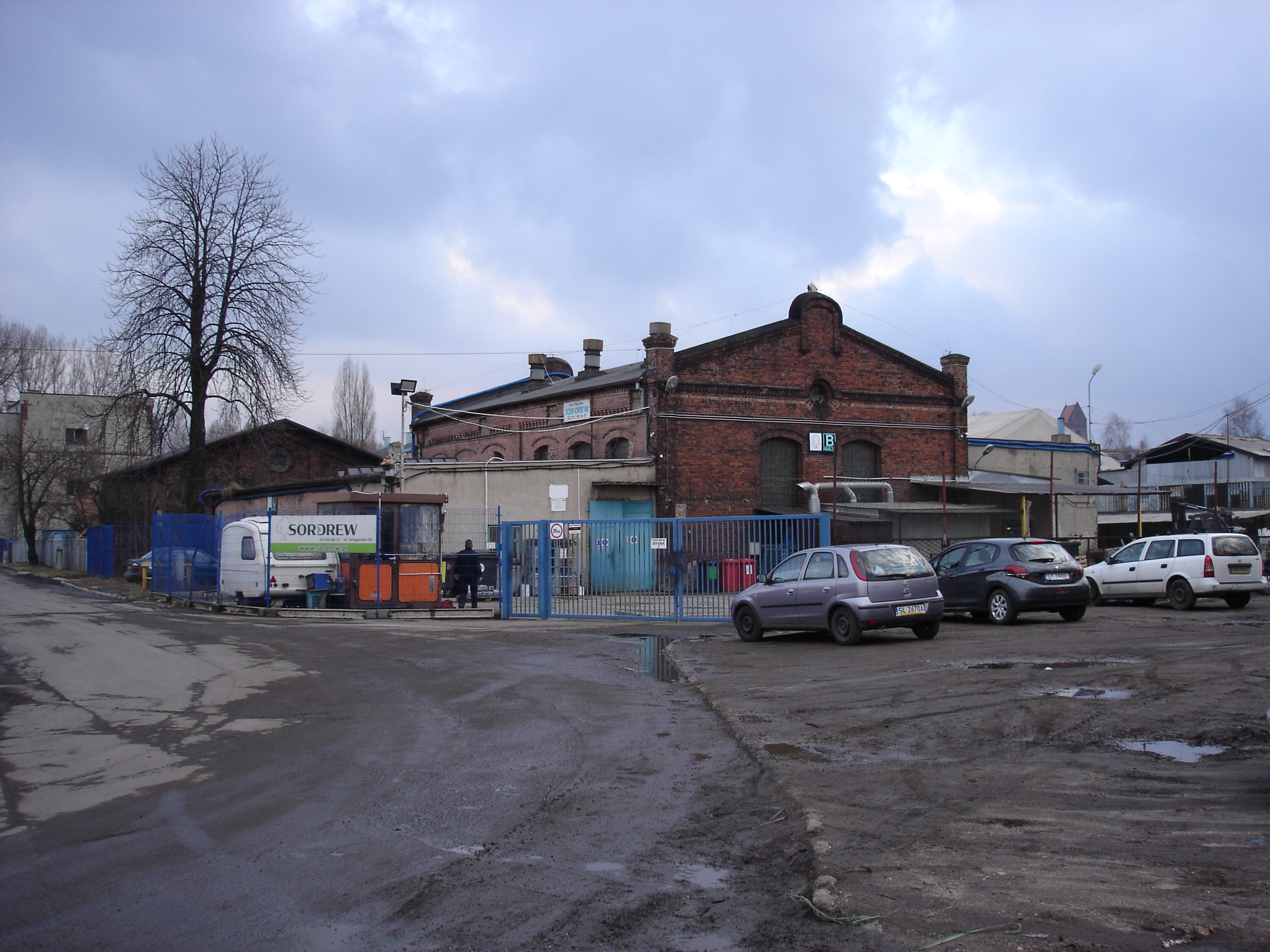 Remains of Śląsk coal mine in Chropaczów, Sztygarska street, Świętochłowice, Poland.